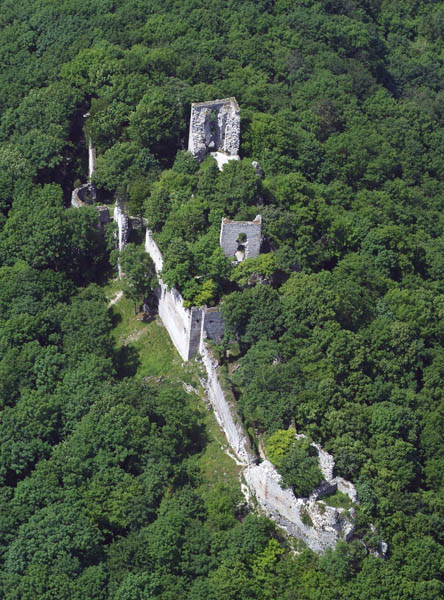 Dobrá Voda Castle, Slovakia, Aerial photography